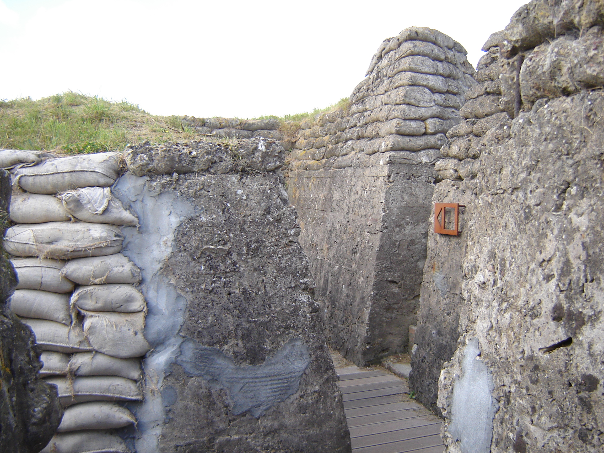 The Dodengang ("Trench of Death"). Diksmuide, West Flanders, Belgium